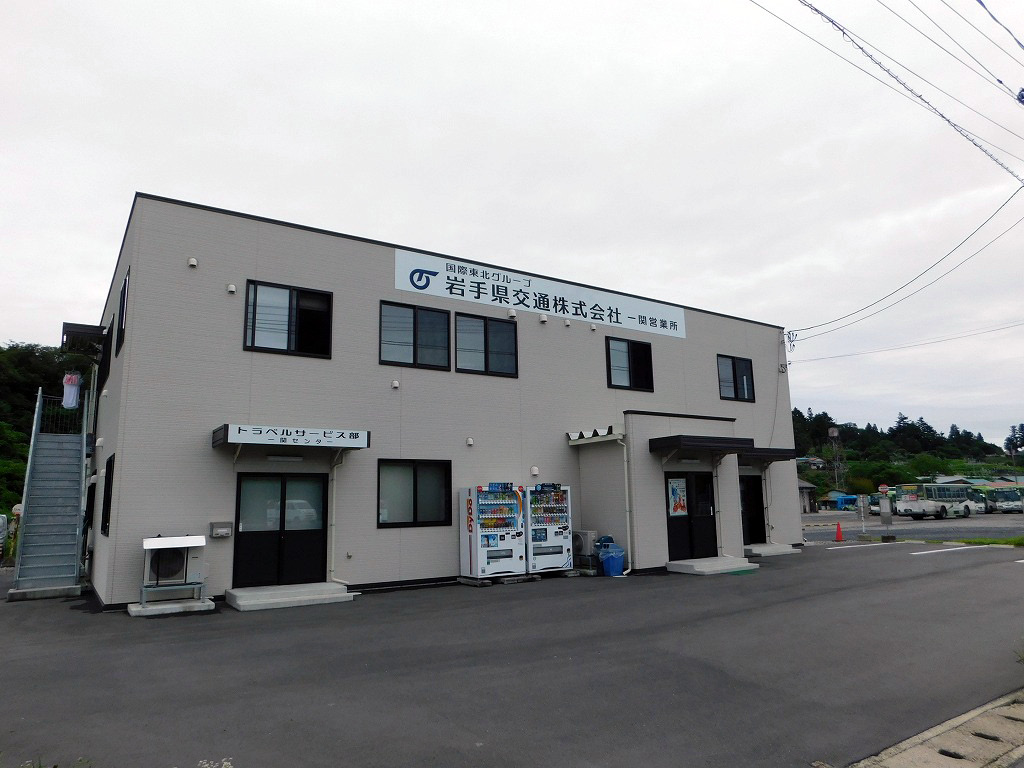 Iwateken kotsu Ichinoseki Depot